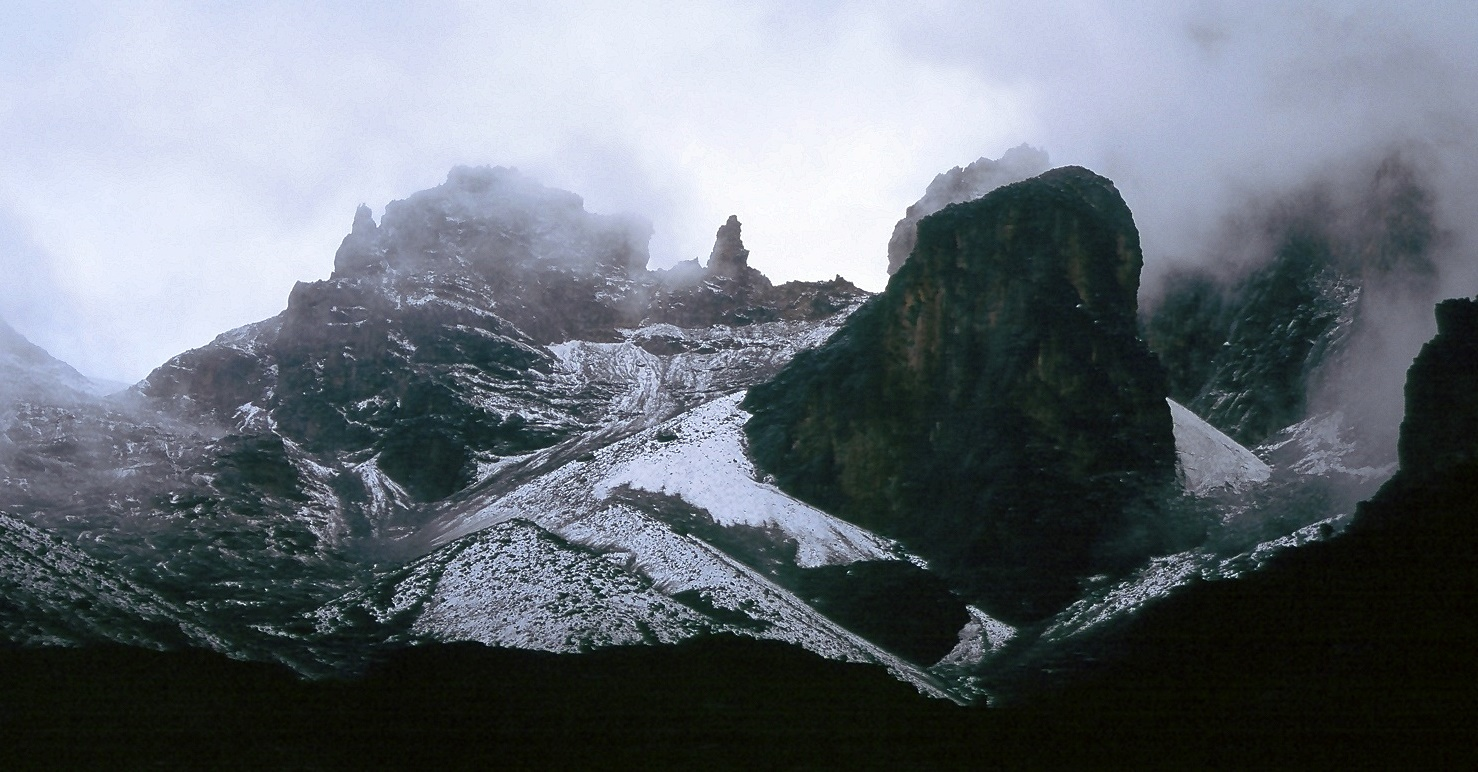 Left to right: Pt Thompson (4955 m - 15,466 ft), Thompson's flake, Krapf Rognon (4800 m - 15,740 ft), Krapf glacier and the base of Nelion raising into the clouds after a snow storm.